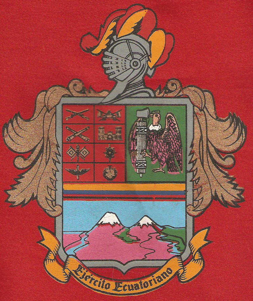 Seal of the Ecuadorian Army